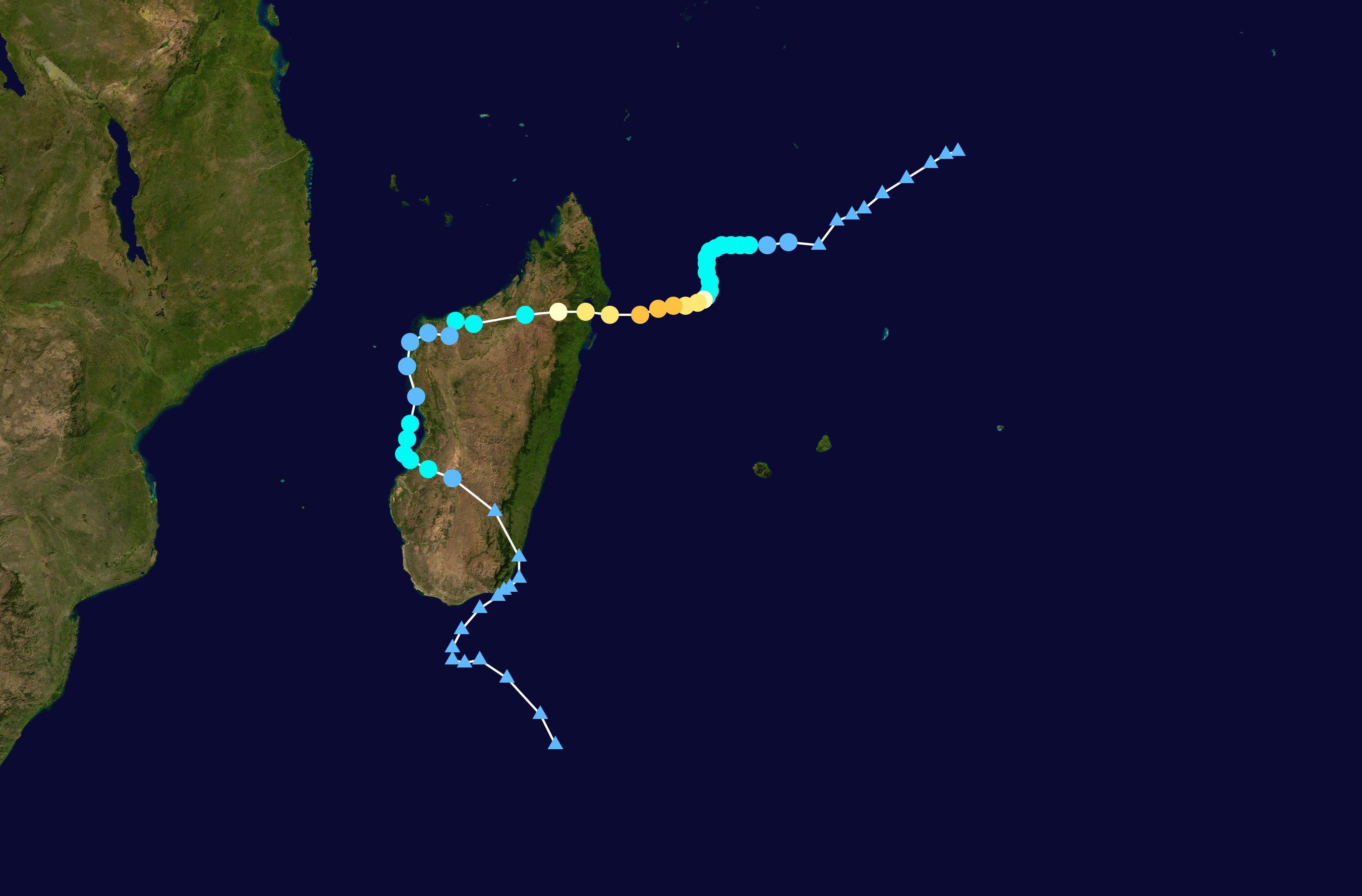 Track map of Tropical Cyclone Bingiza of the 2010-11 South West Indian Ocean cyclone season. The points show the location of the storm at 6-hour intervals. The colour represents the storm's maximum sustained wind speeds as classified in the Saffir–Simpson scale (see below), and the shape of the data points represent the nature of the storm, according to the legend below. Saffir–Simpson scale Tropical depression≤38 mph≤62 km/h Category 3111–129 mph178–208 km/h Tropical storm39–73 mph63–118 km/h Category 4130–156 mph209–251 km/h Category 174–95 mph119–153 km/h Category 5≥157 mph≥252 km/h Category 296–110 mph154–177 km/h Unknown Storm type Tropical cyclone Subtropical cyclone Extratropical cyclone / Remnant low / Tropical disturbance / Monsoon depression